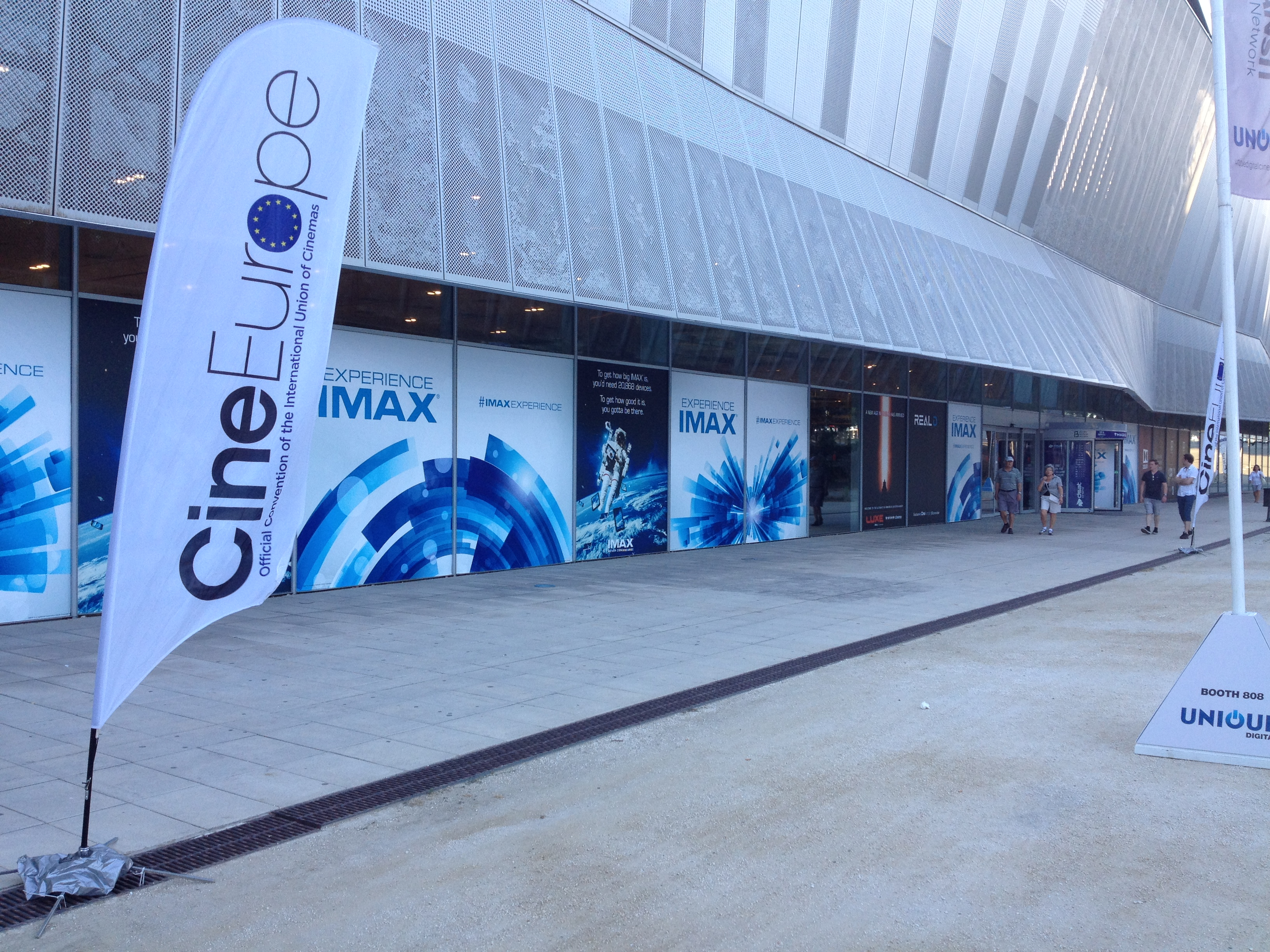 Entrance to the Centre Convencions Internacional Barcelona, Catalonia, Spain at the 2015 CineEurope